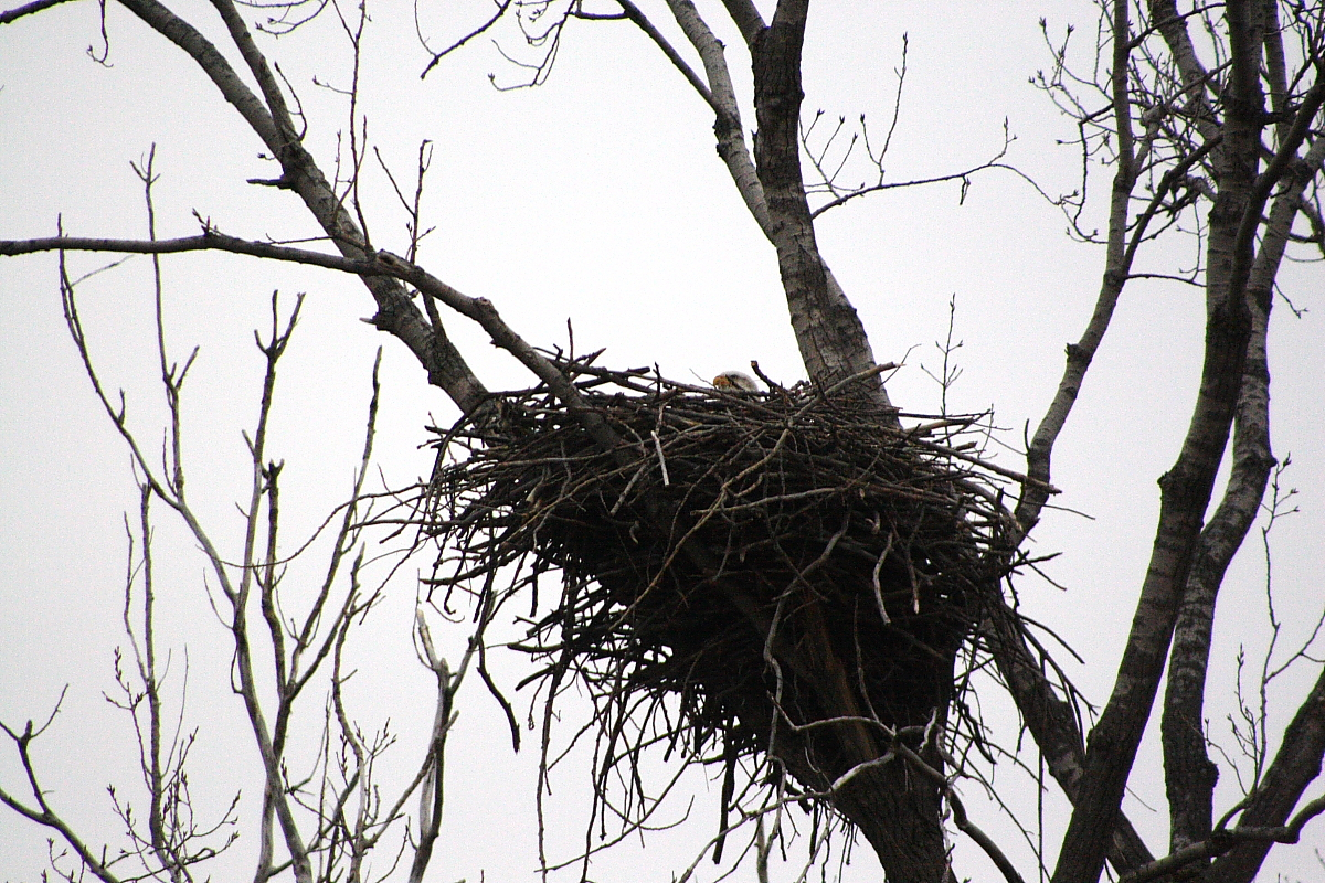 Female bald eagle on an egg, Missouri.